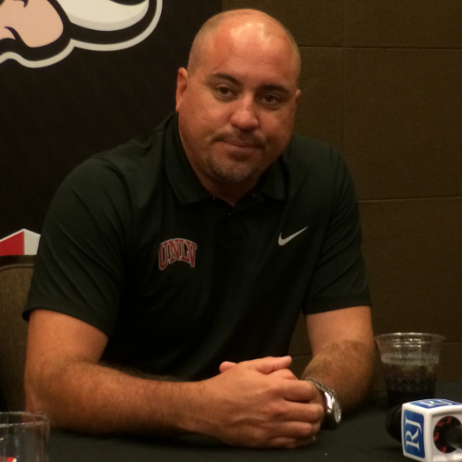 en:, head coach of the en: team, at the 2016 Mountain West Conference Media Days in the The Cosmopolitan in Las Vegas.